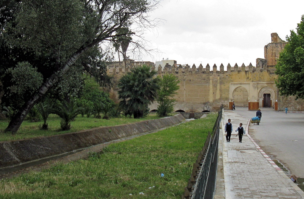 The Oued Fes reemerging from underground east of the Old Mechouar.